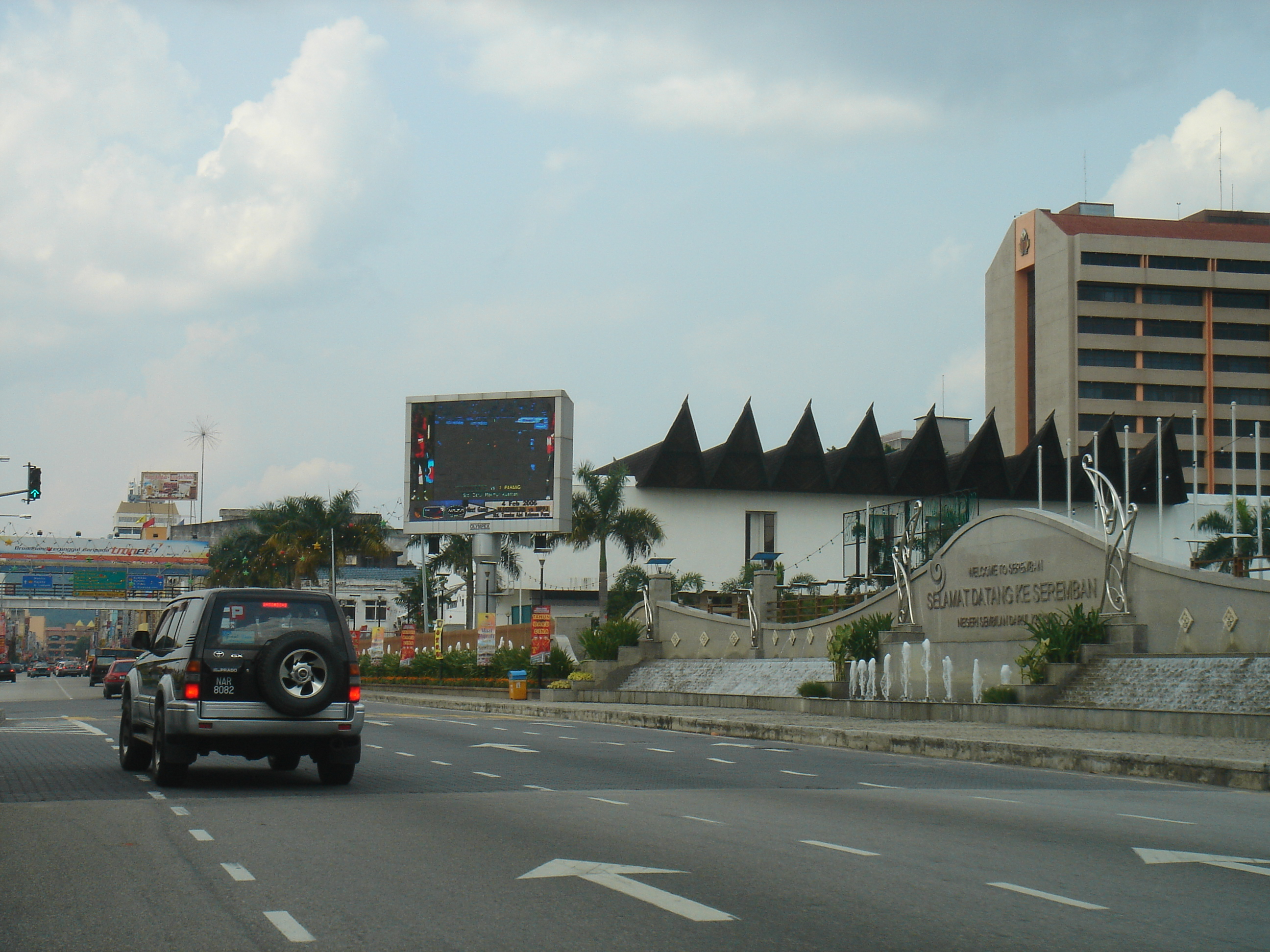 Seremban is the capital of Negeri Sembilan in Malaysia.